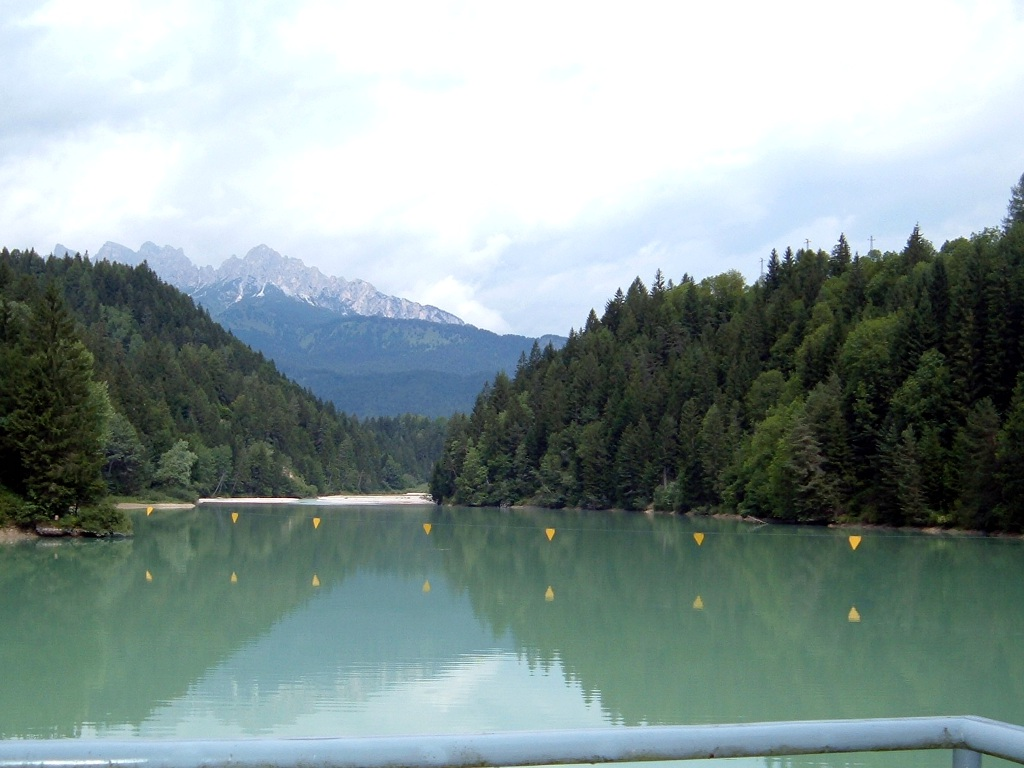 Lake of Vodo di Cadore. Photo taken from the walkway on the dam.